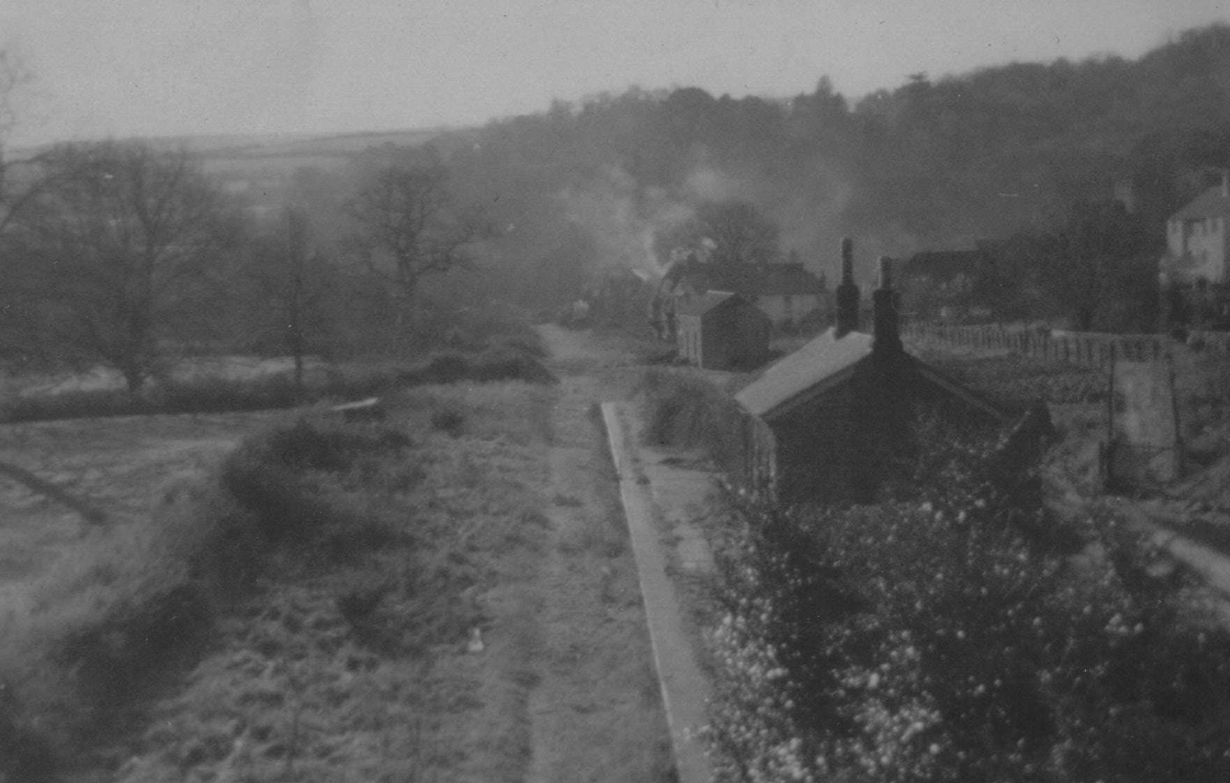 Lustleigh station on the line from Newton Abbott to Moretonhampstead on 28 December 1969.